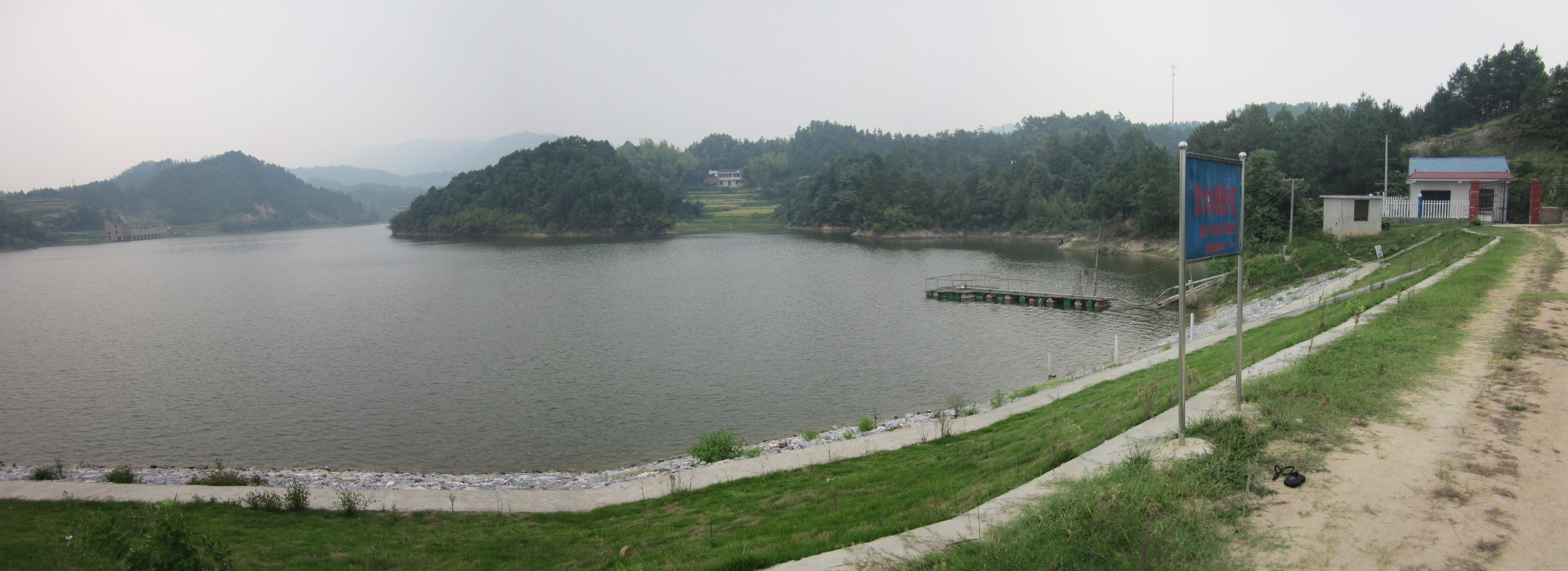 Qiguan Reservoir, is a large reservoir located in the western part of Ningxiang County in the province of Hunan, People's Republic of China.